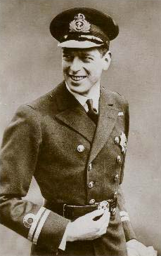 Prince George, Duke of Kent, in Royal Navy uniform